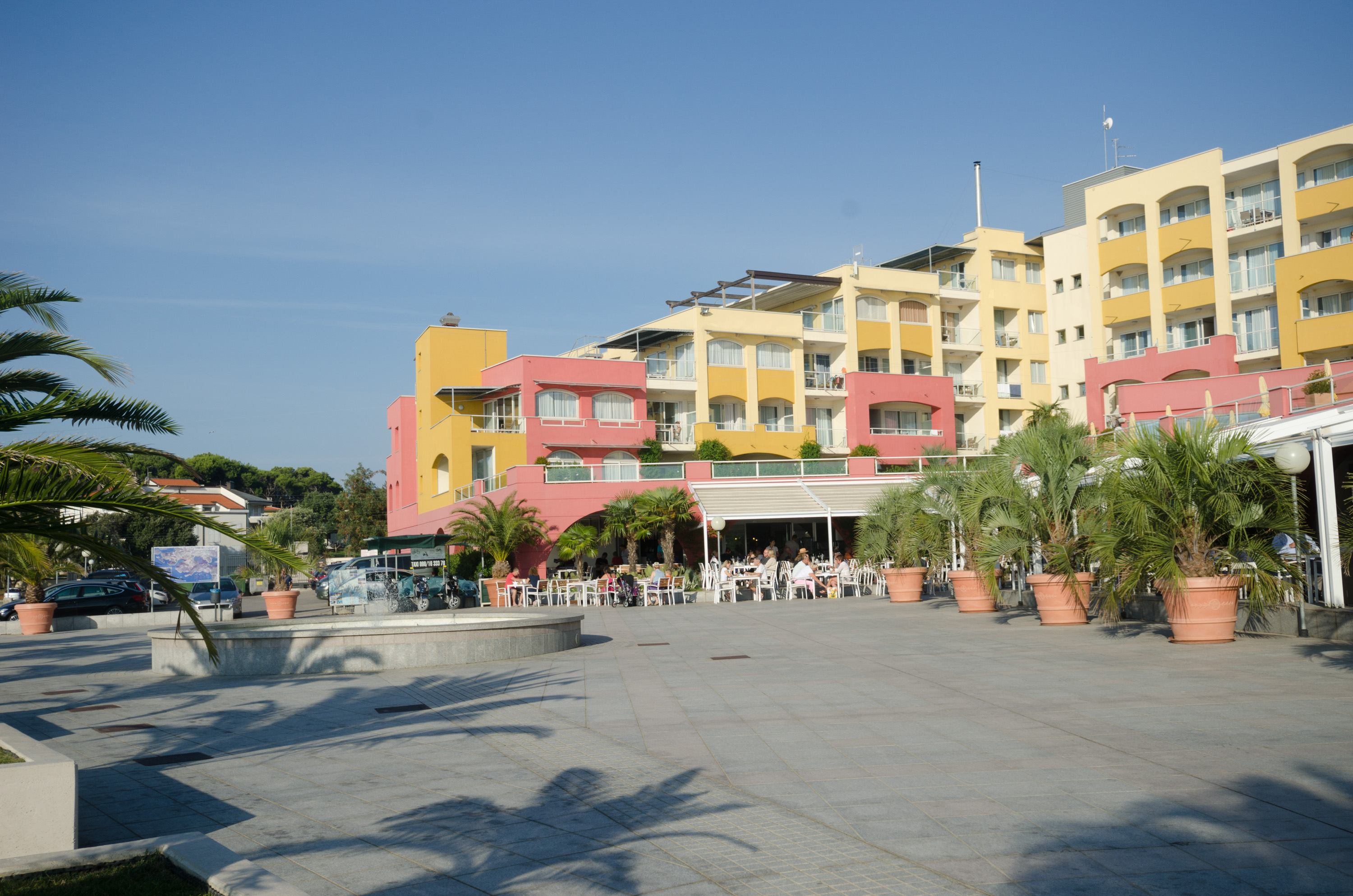 Aparthotel del Mar, Banjole. Fountain in front of the hotel.